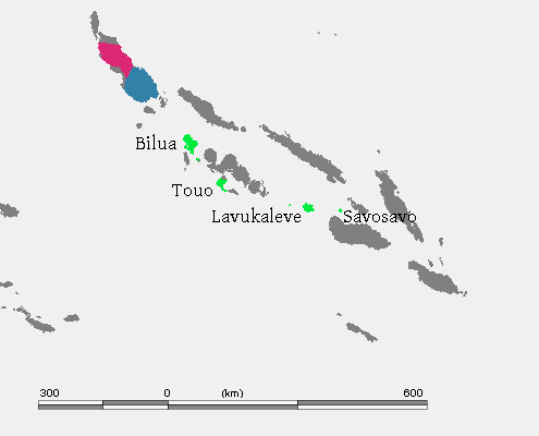 Language families of the Solomon Islands. Red: North Bougainville. Blue: South Bougainville. Green: Central Solomons. Grey: Austronesian.